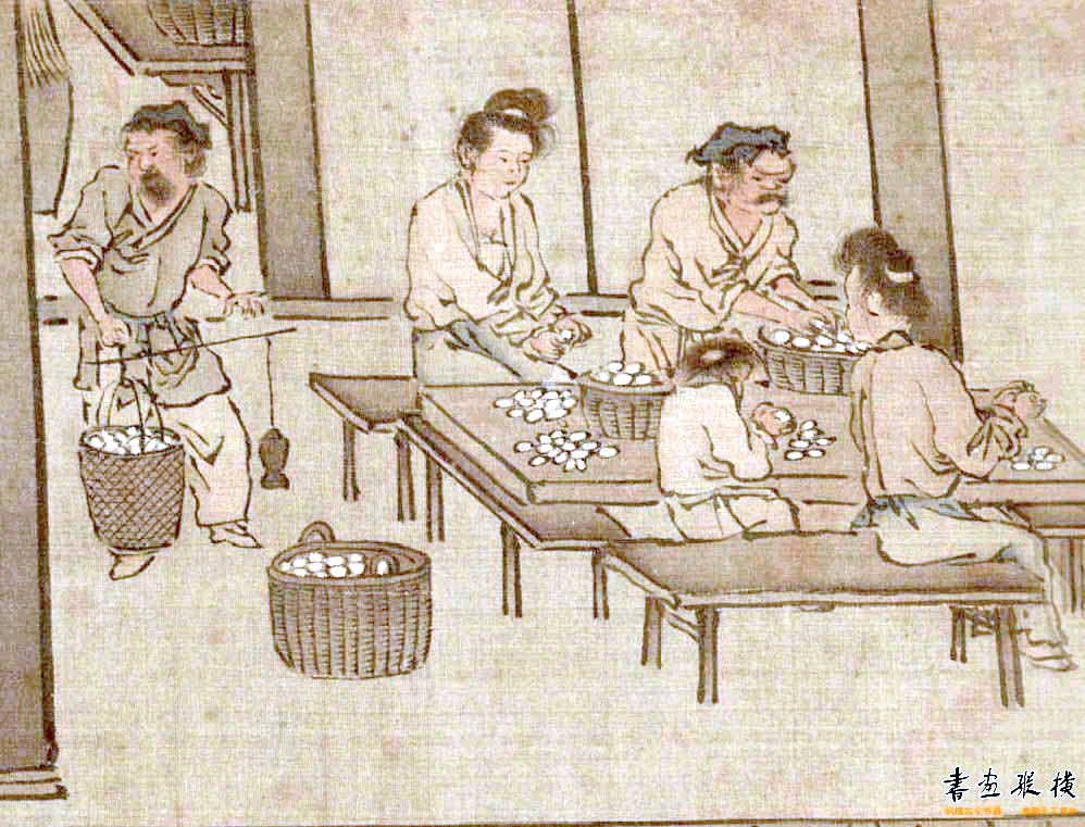 Cropped from Sericulture, The Process of Making Silk (蚕织图), a Chinese Song dynasty painting attributed to Liang Kai (梁楷).